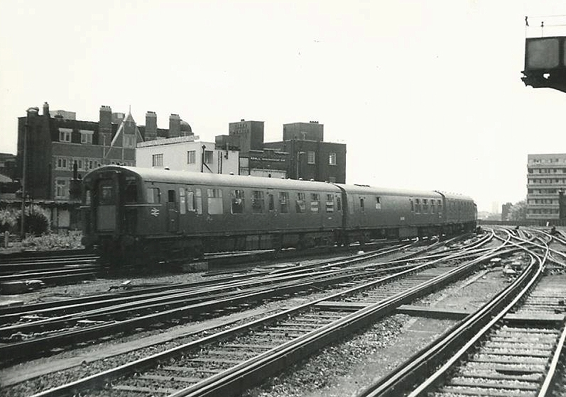 B.R.(S.R.) Standard Mk.I Class "4-REP" (later Class "430") 750 v dc 3rd rail 4-car inter-city e.m.u. No.3006 in BR blue livery and small yellow warning panel entering Waterloo on a service from Weymouth, 07/67. Note aluminium BR double-arrow logo - a quality detail. Scanned photograph taken with a Kowa SET camera.